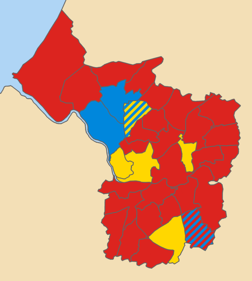 Results of the 1995 local elections in Bristol Colours: Conservative Labour Liberal Democrat